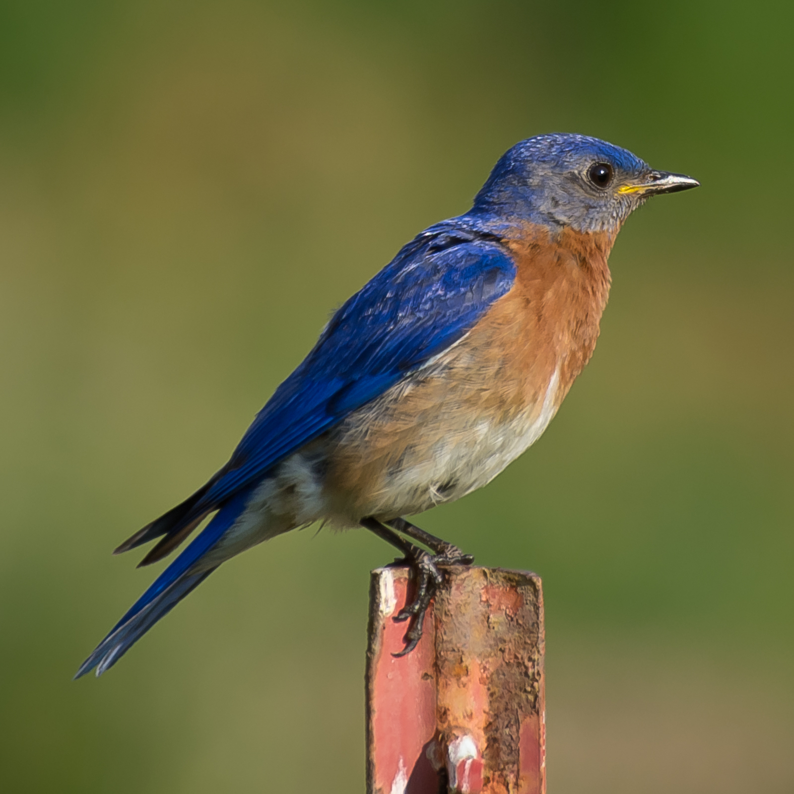 A male Eastern Bluebird (Sialia sialis) perched on a metal fencepost. Photo taken with an Olympus E-5 in Avery County, NC, USA. Cropping and post-processing performed with Adobe Lightroom.